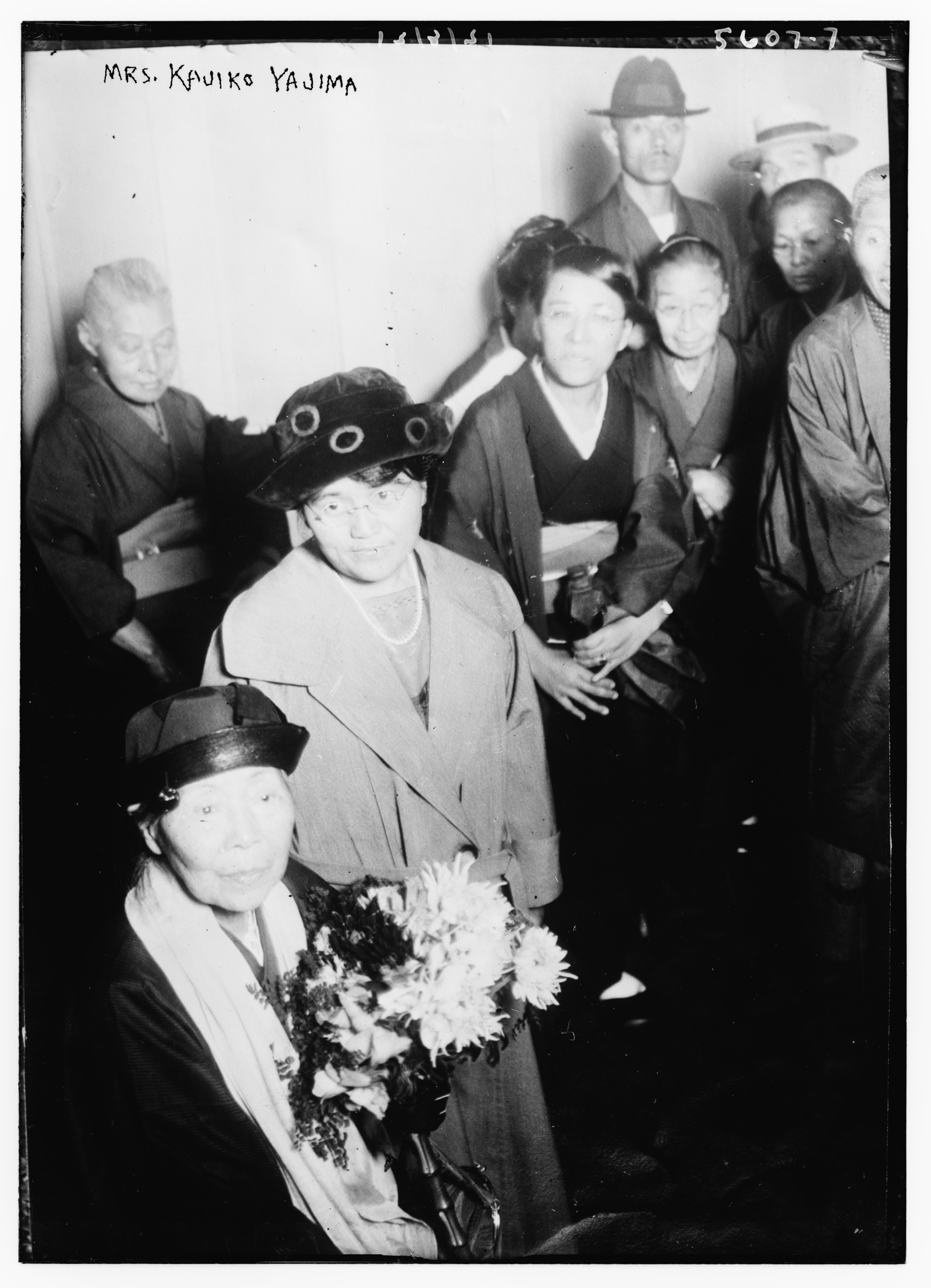 Title: Mrs. Kajiko Yajima Abstract/medium: 1 negative : glass ; 5 x 7 in. or smaller.